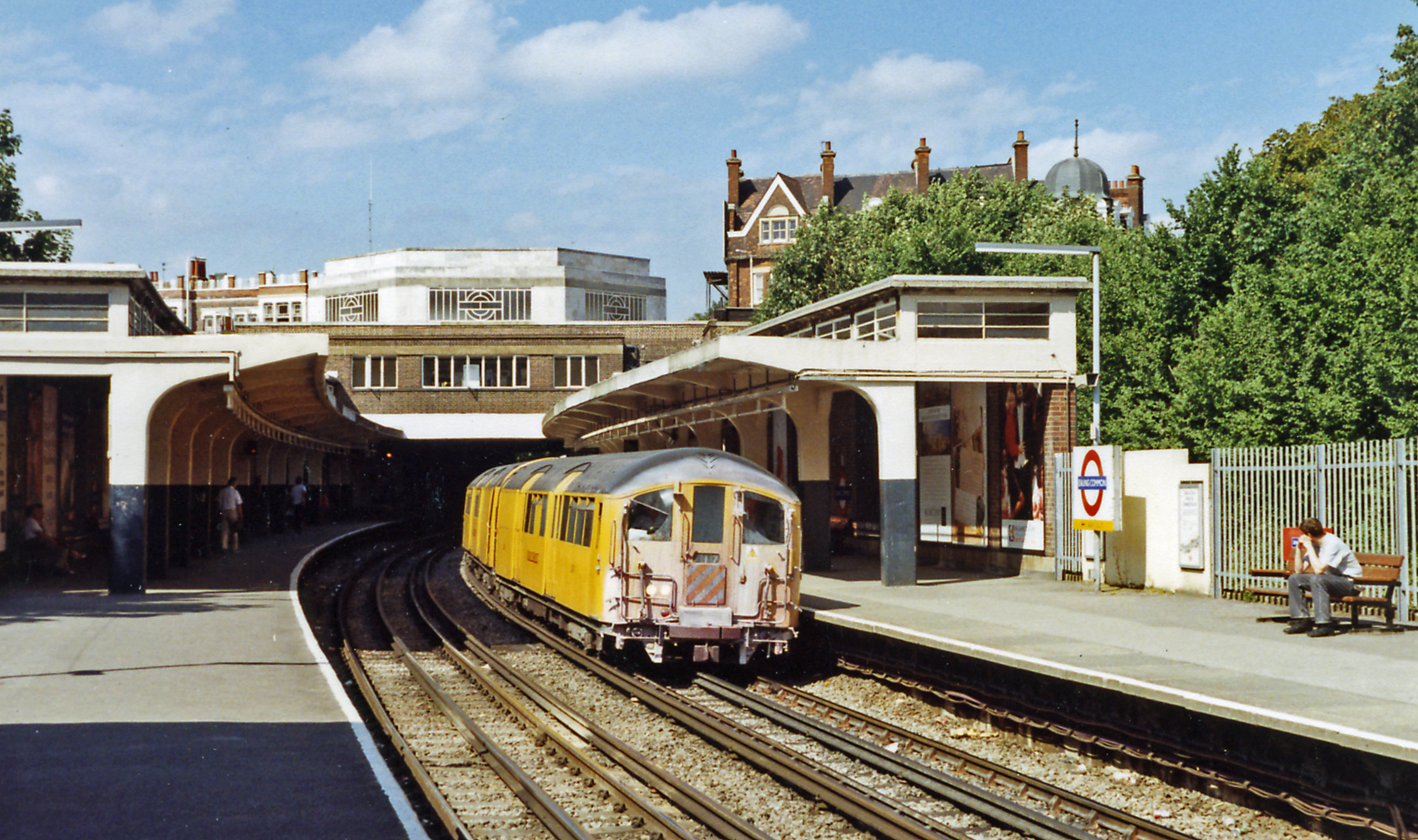 Ealing Common, London Underground station 1991. View northward, towards Ealing Broadway on the District Line, Rayners Lane and Uxbridge on the Piccadilly Line. The train on the eastbound line is not actually a normal Tube train but an Engineer's Service train, painted yellow.